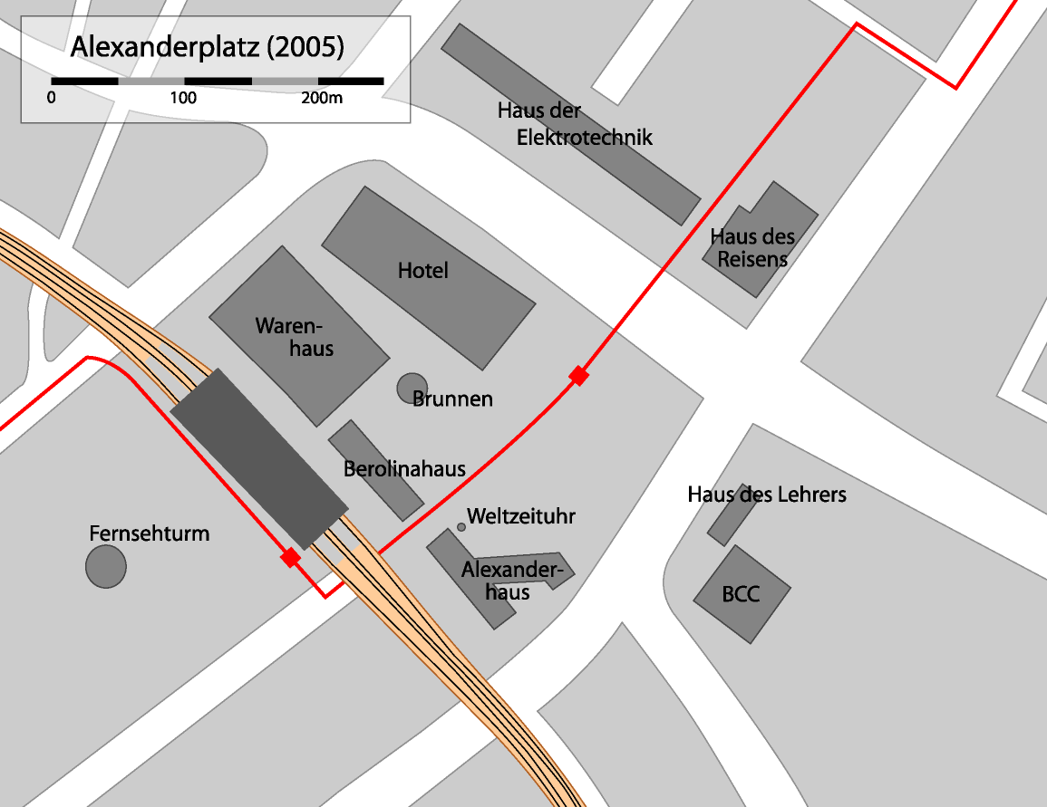 Map of the Alexanderplatz in Berlin 2005